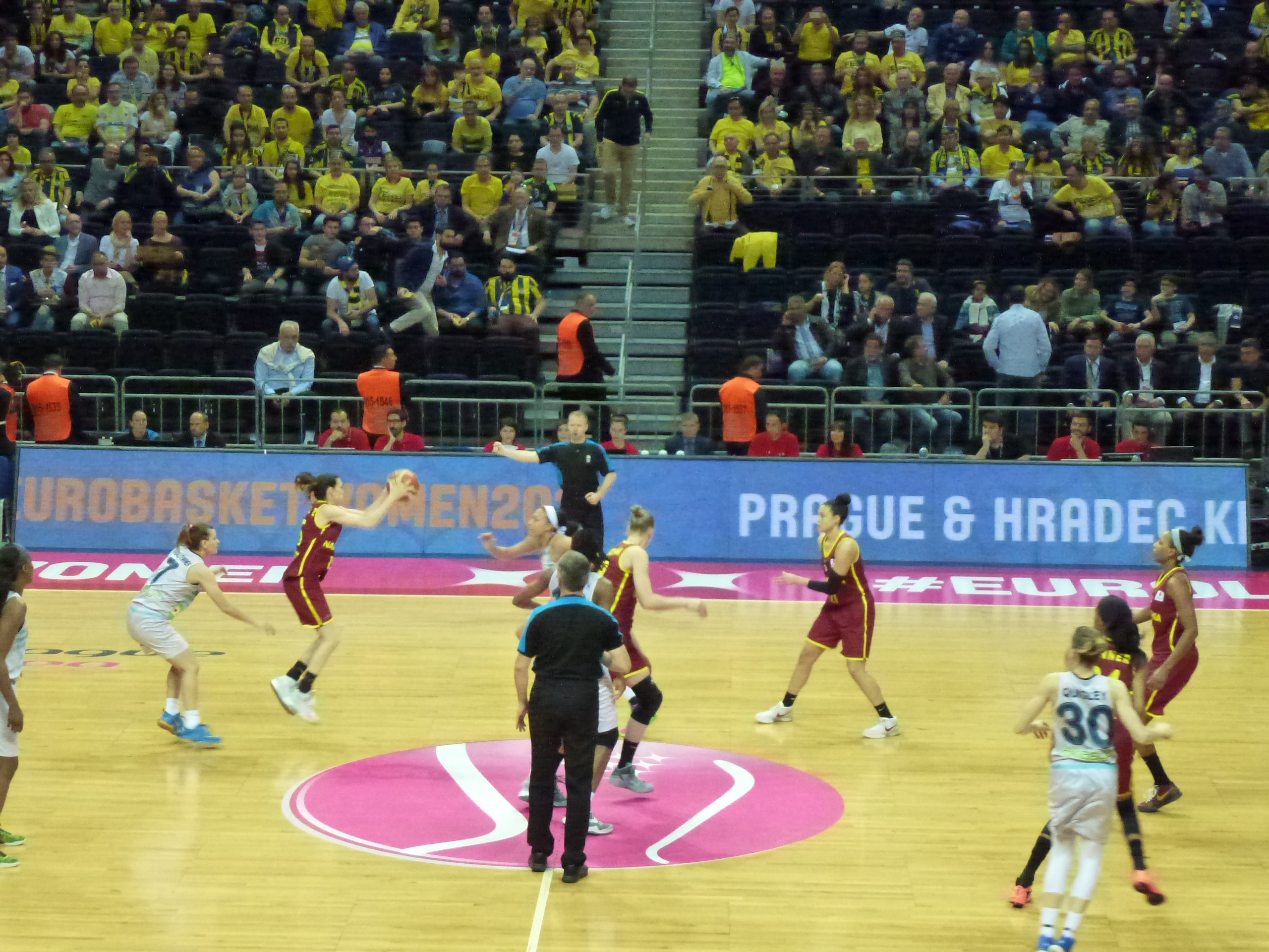 Fenerbahçe Women's Basketball - Nadezhda Orenburg 2015-16 EuroLeague Women semi final on 15 April 2016 in Ülker Sports Arena